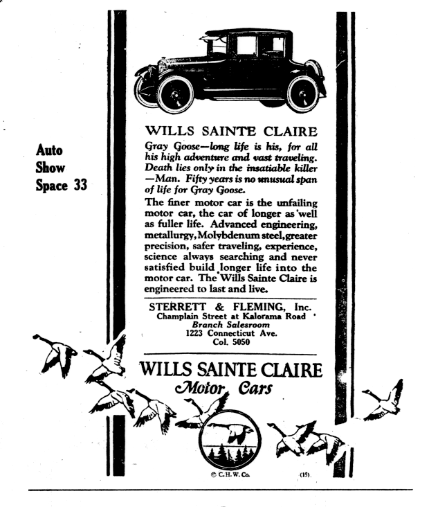 Willis Sainte Claire newspaper ad. The company was present at the 1923 Washington DC Autoshow.